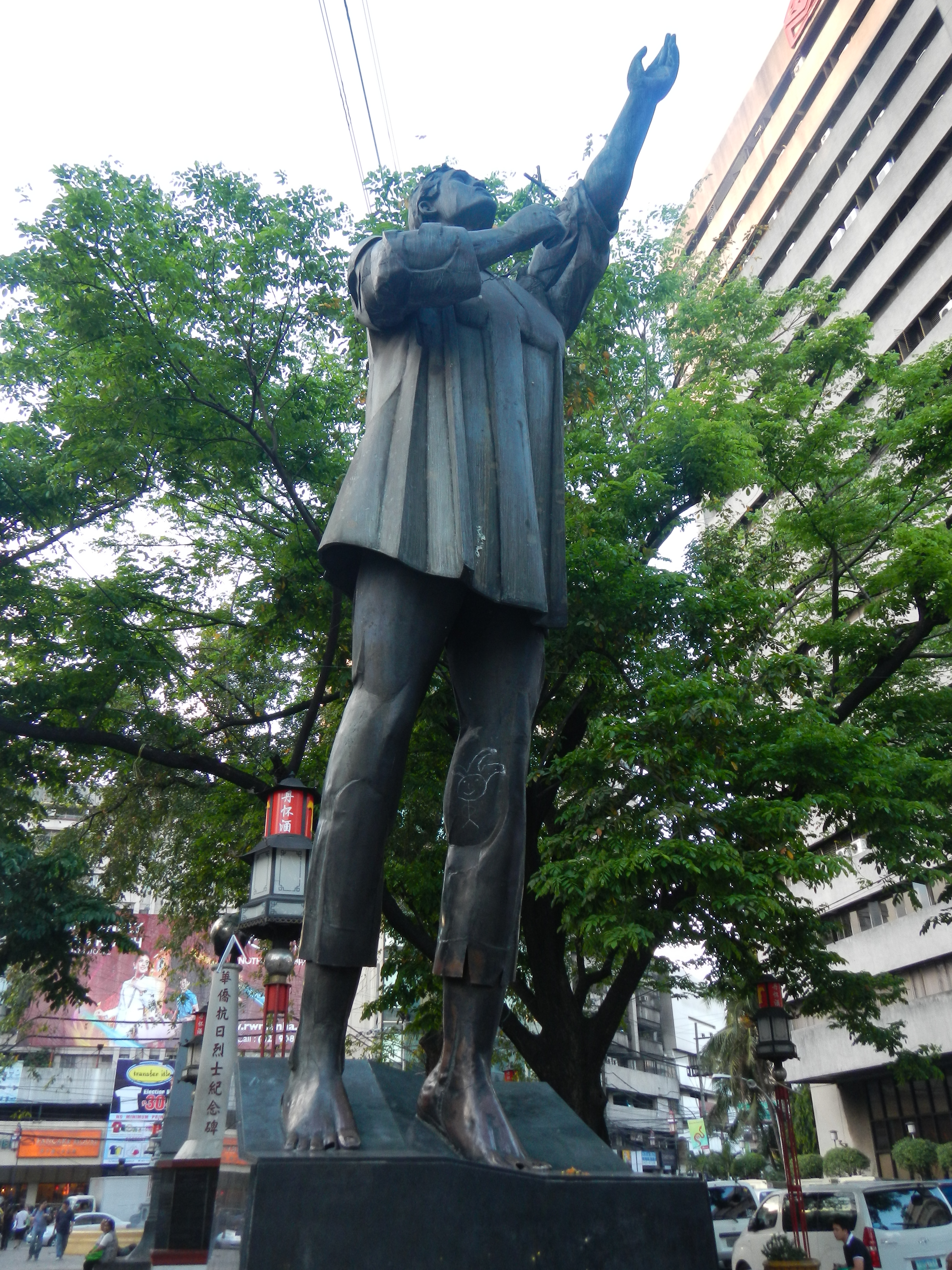 Binondo Church, also known as Minor Basilica of St. Lorenzo Ruiz , is located in the District of Binondo, Manila fronting Plaza Calderón de La Barca, in the Philippines. This church was founded by Dominican priests in 1596 to serve their Chinese converts to Christianity. The original building was destroyed in 1762 by British bombardment. A new granite church was completed on the same site in 1852 however it was greatly damaged during the Second World War, with only the western facade and the octagonal bell tower surviving.[1]